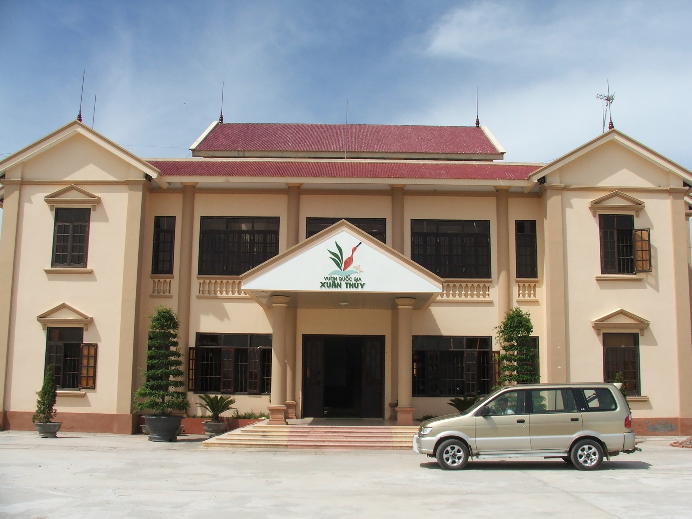 The main office building of Xuan Thuy National Park (Giao Thuy District, Nam Dinh Province, North Vietnam) which is located at the mouth of the red river. The Park became Southeast-Asias first Ramsar Site in 1989.